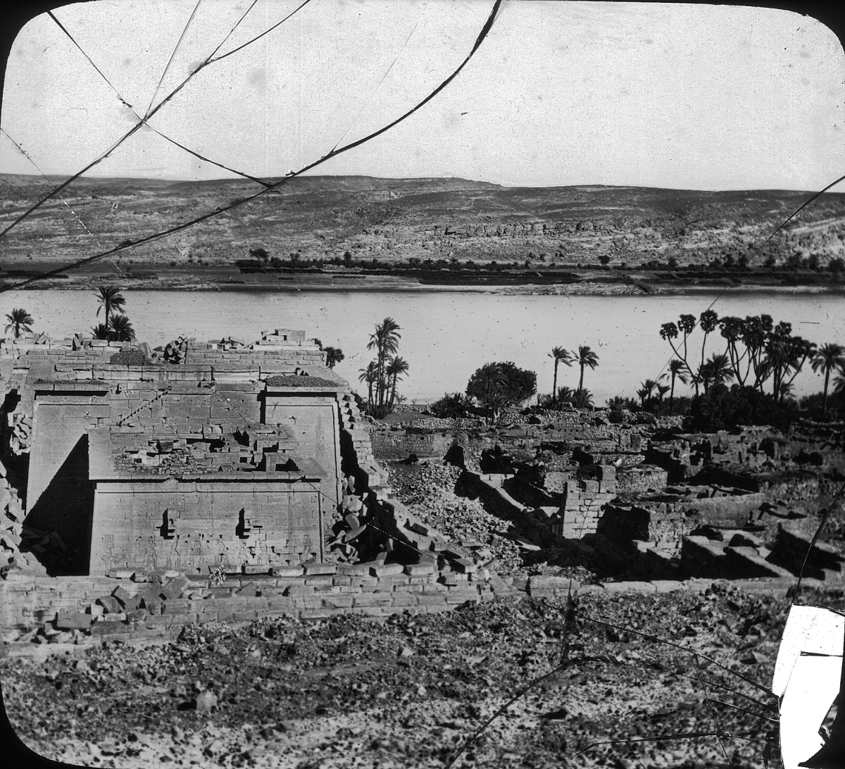 Egypt - Temple of Kalabscheh, Nubia. Brooklyn Museum Archives, Goodyear Archival Collection (S03_06_01_018 image 2378).